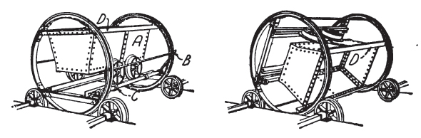 Drawing of a rotary dump, a machine used to unload coal from a mine car. The dump is installed inside a coal tipple. A mine car loaded with coal is positioned inside the dump (see illustration on the left). The dump is then operated to tip the car and unload the coal into a chute beneath the tipple (right illustration).